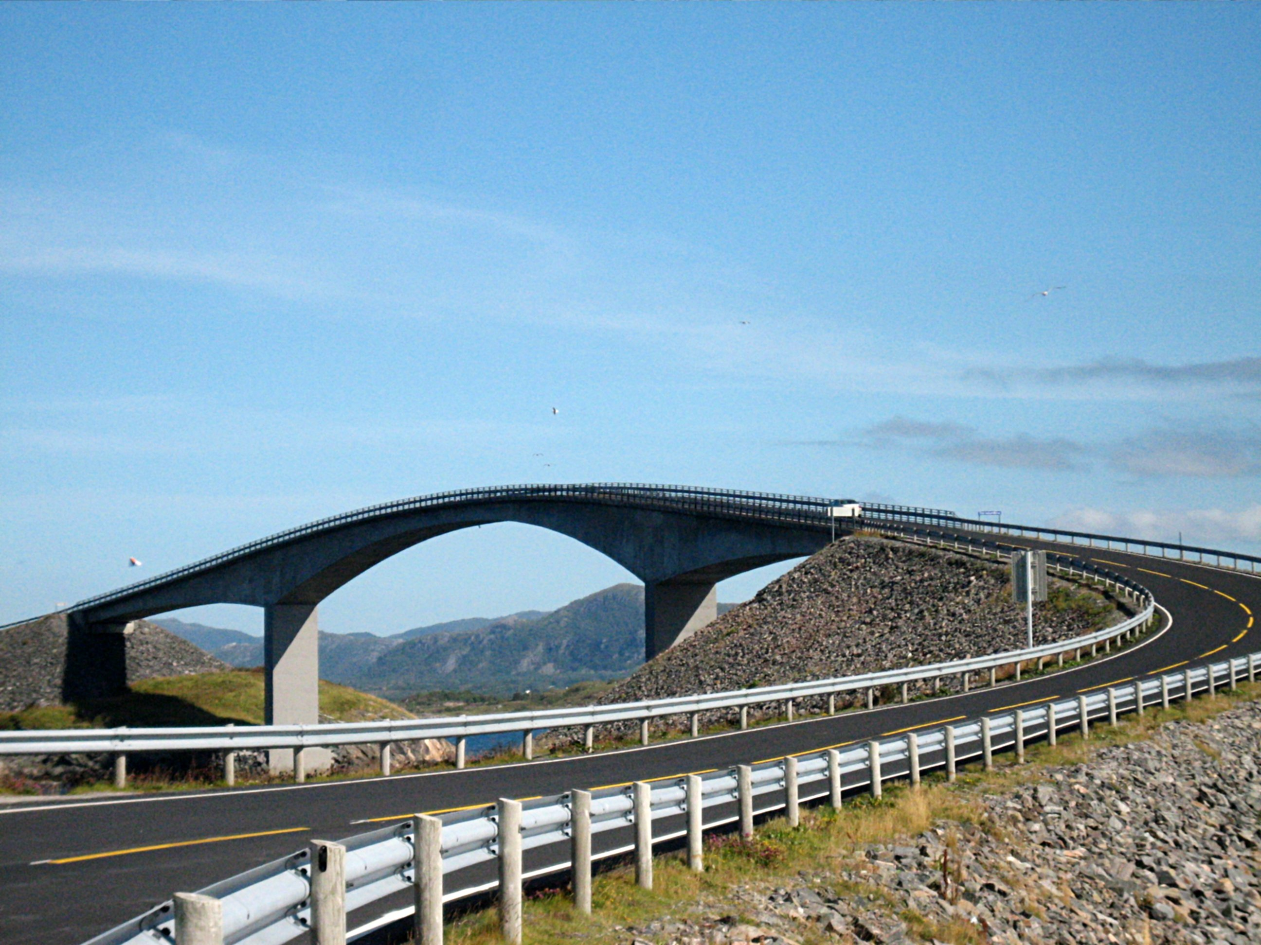 The Stroseisundet bridge, the longest bridge of the Atlanterhavsveien in Norway. View to the east direction.